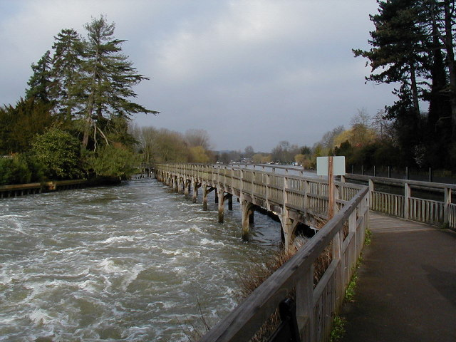 Thames - the path across to Marsh Lock